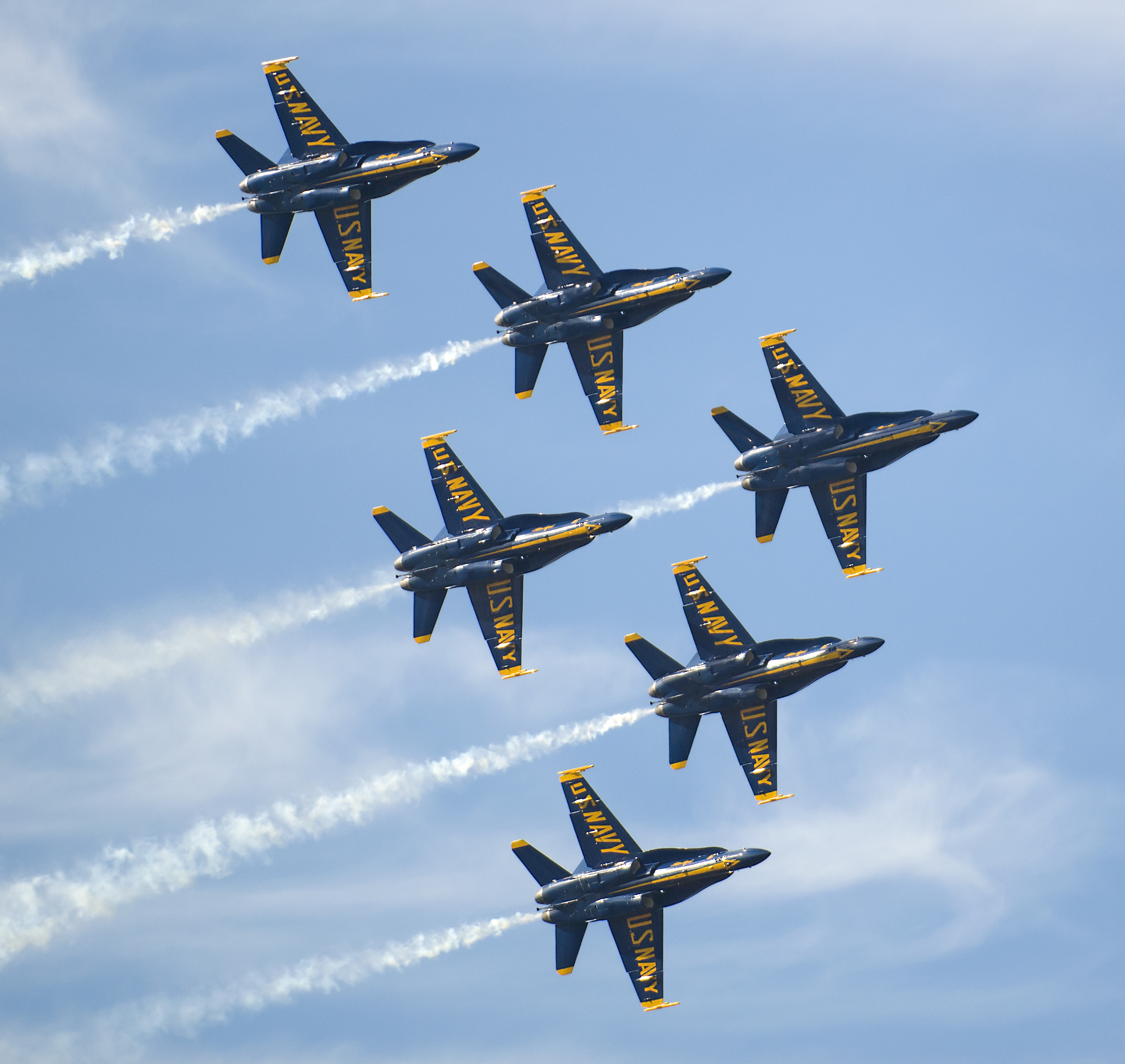 The Blue Angels flying in a Delta Formation at Miramar